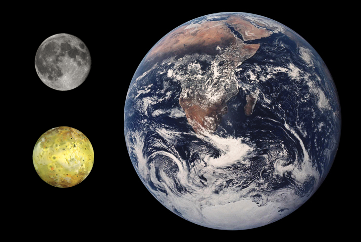 Diameter comparison of the Jovian moon Io, Moon, and Earth. Scale: Approximately 29km per pixel.